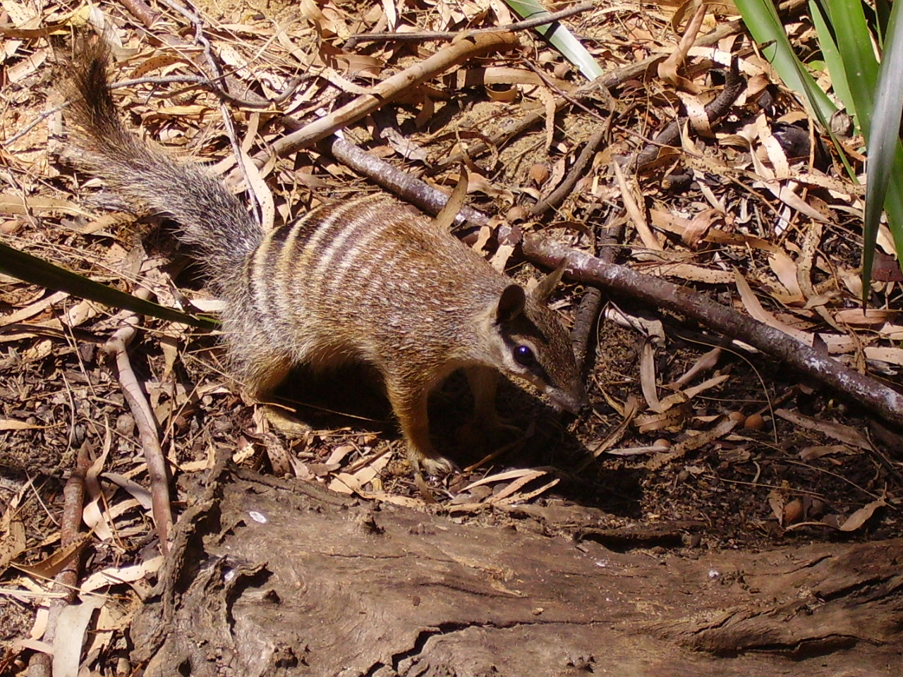 A numbat Myrmecobius fasciatus (marsupial anteater). Perth zoo (Western Australia).